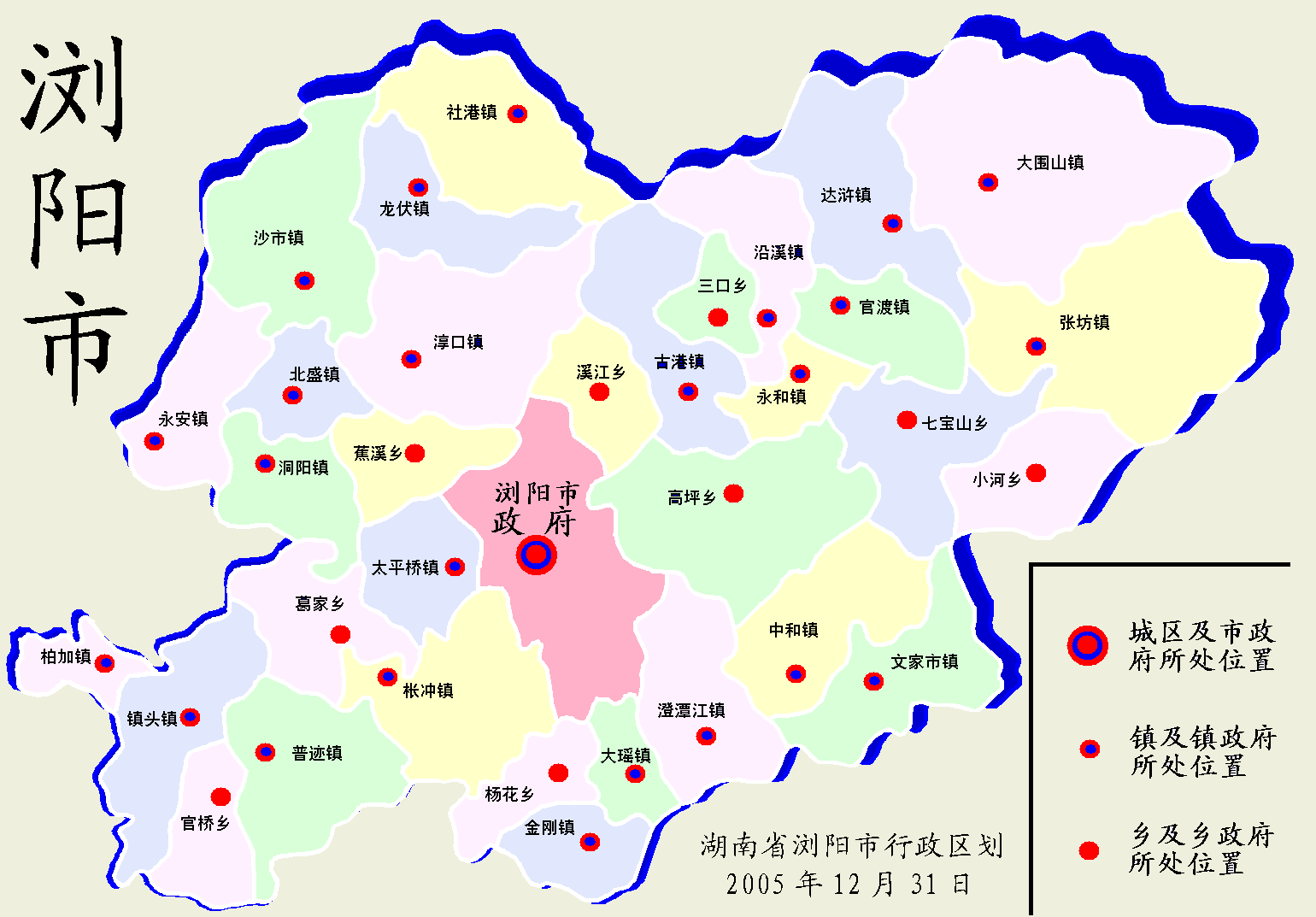 the Administrative division of Liuyang city, Hunan, China(湖南浏阳市行政区划，中文版本)